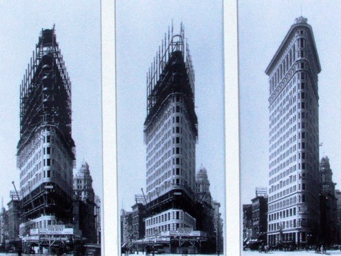 A series of images chronicling the construction of the Flatiron Building, from the New York Times photo archive, credited to the Library of Congress.